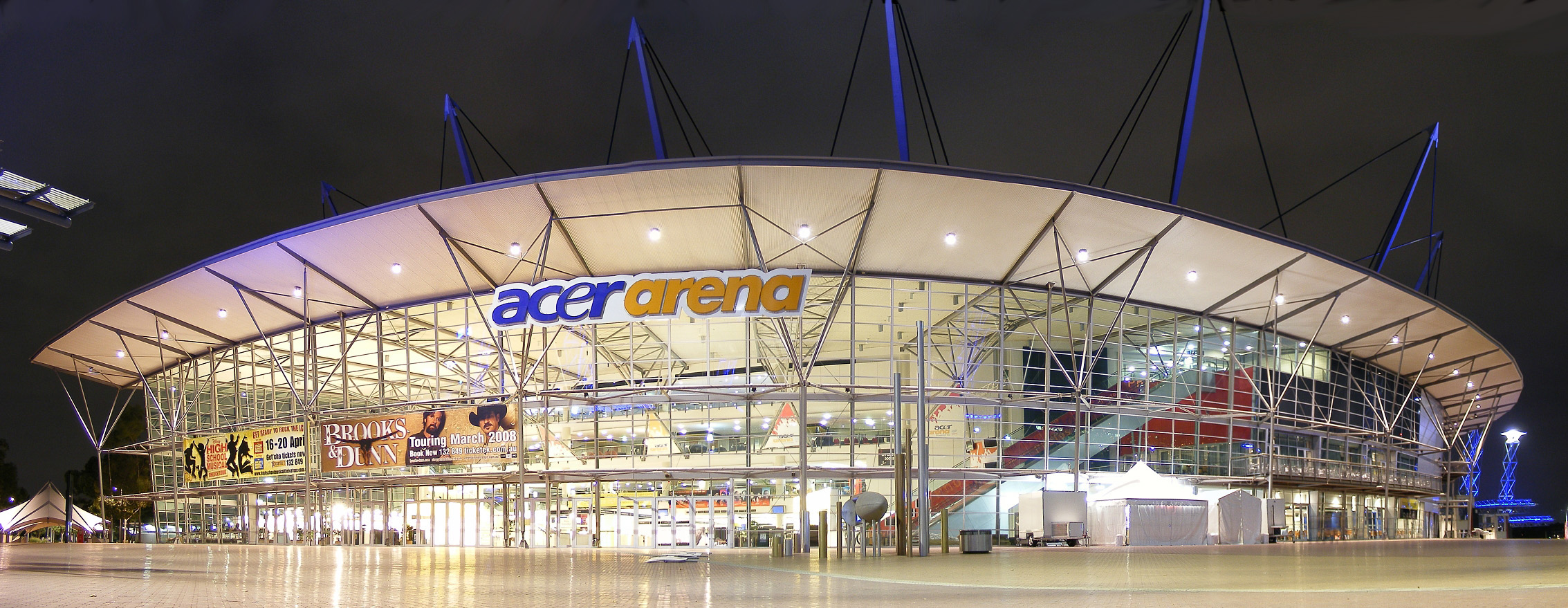 Olympic Stadium Sydney. I had to upload this again. There was another image on Wikipedia with the same name. Adam.J.W.C. 22:36, 5 March 2008 (UTC)